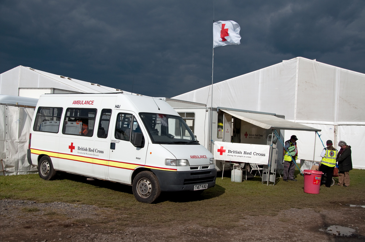 Red Cross first aid station - Malvern Spring Show 2010